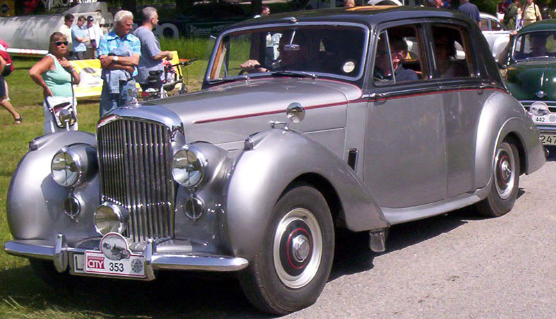 Bentley R-Type 4-Door Saloon 1952